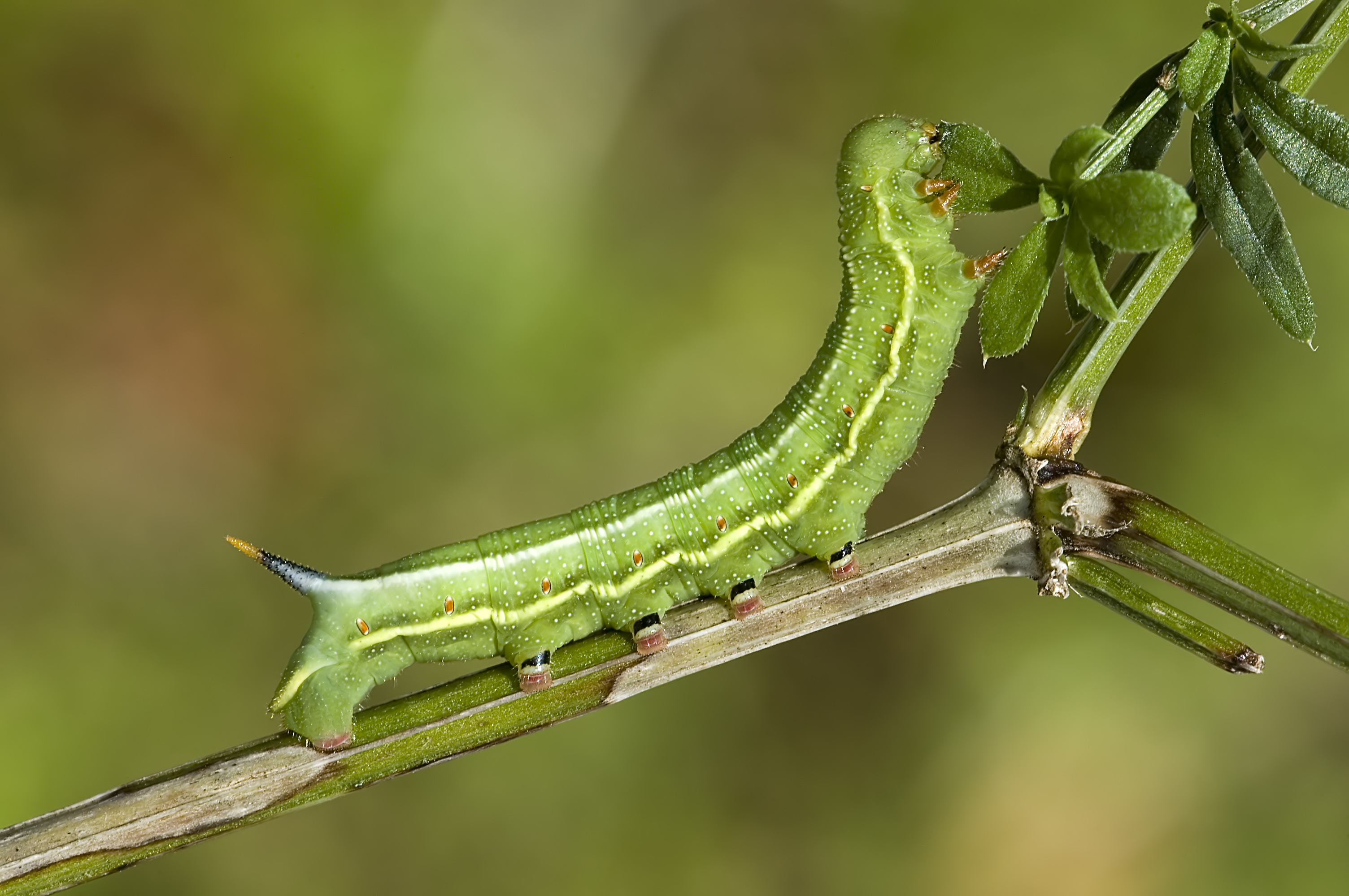 Hummingbird Hawk-moth